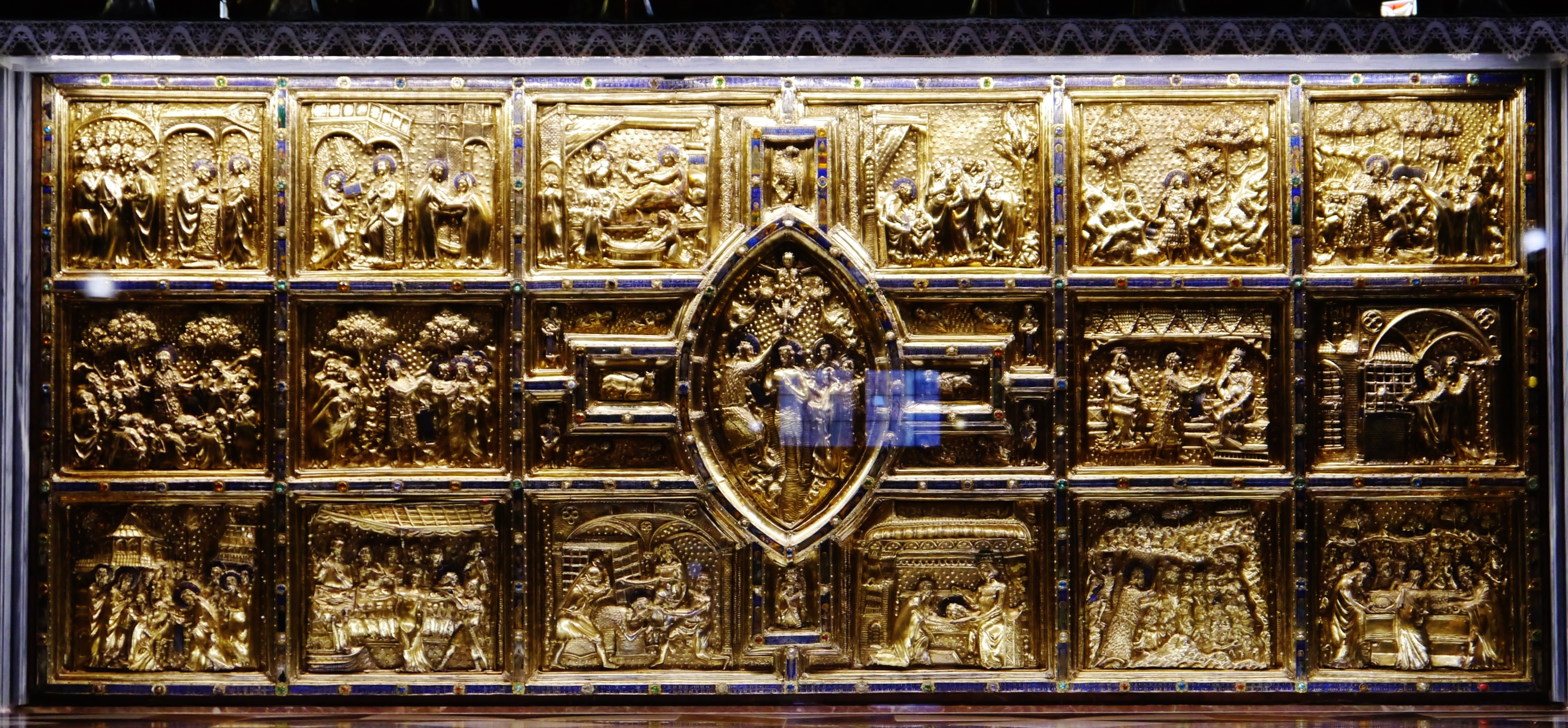 High Altar of the Church of St. John the Baptist, Monza, Province of Monza & Brianza, Region of Lombardy, Italy